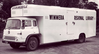 Photo of the WRLC's first mobile library